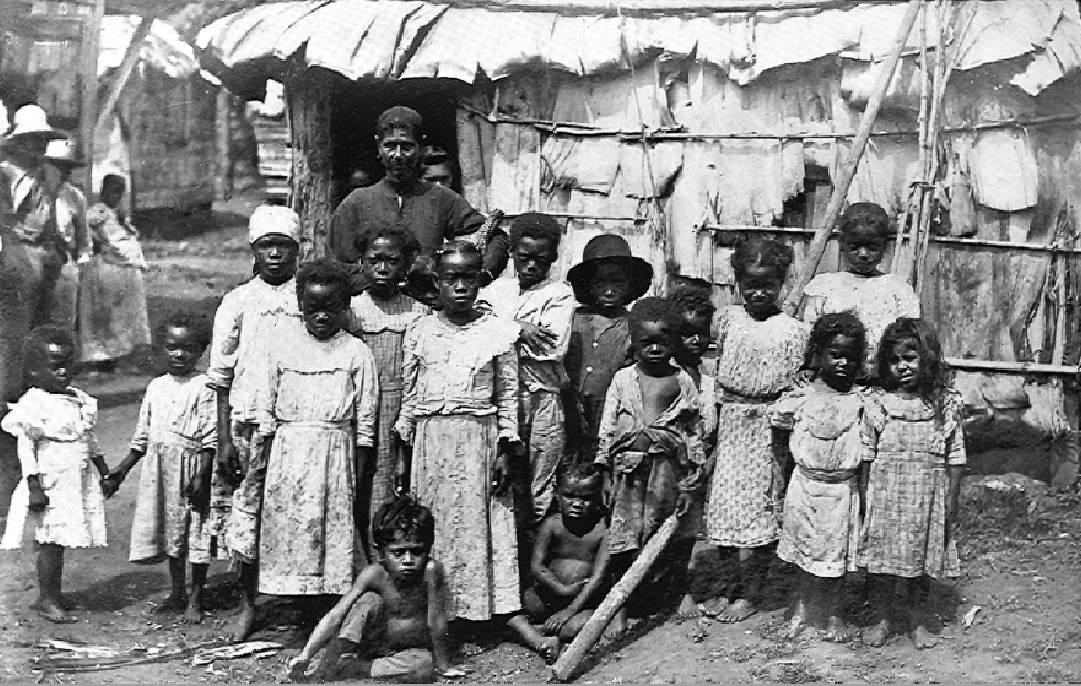 This pic purports to show peons in Puerto Rico at the time when the U.S. came to occupy the island in 1898. The image comes from the following book: Davis, George W., Brig. Gen., U.S.A. Military Government of Porto Rico from October 18, 1898, to April 30, 1900. Washington, 1902. Page 95 The image is also at the LOC, but with the wrong title of "Slaves." b